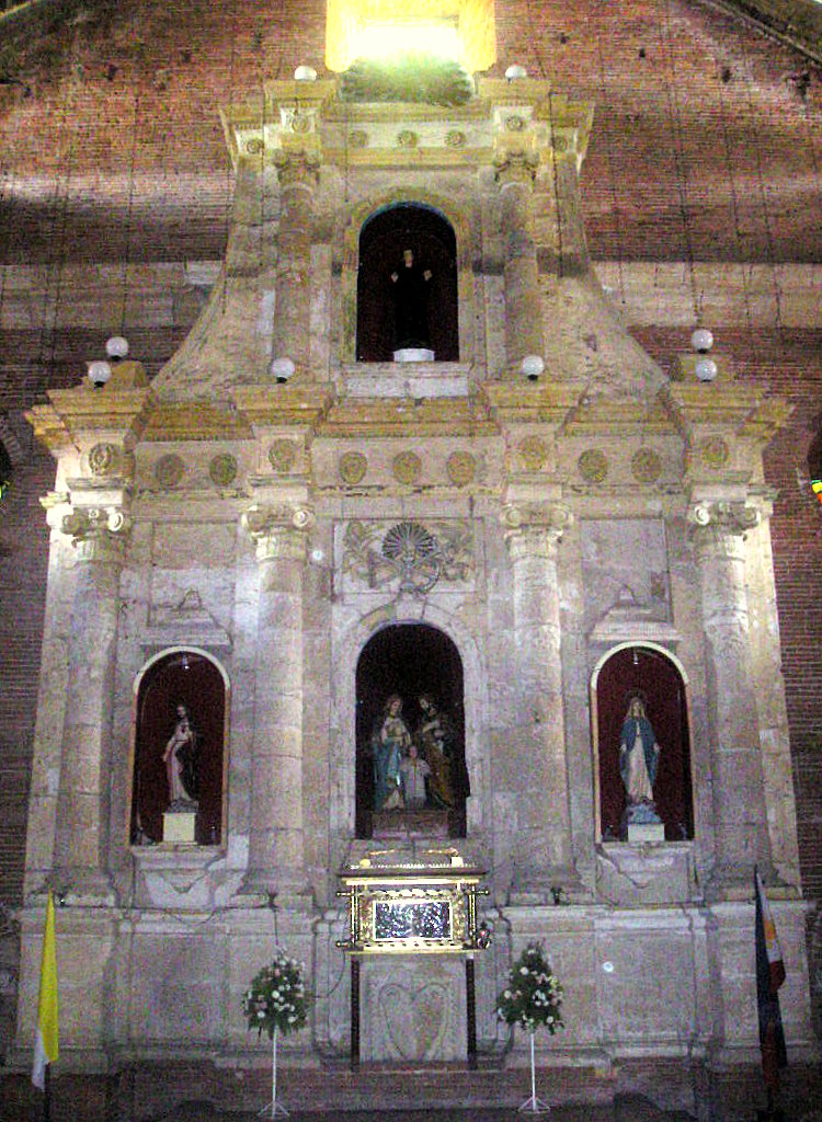 The Main Altar of San Nicholas de Tolentino Parish Church which is one of the tallest in the Philippines.